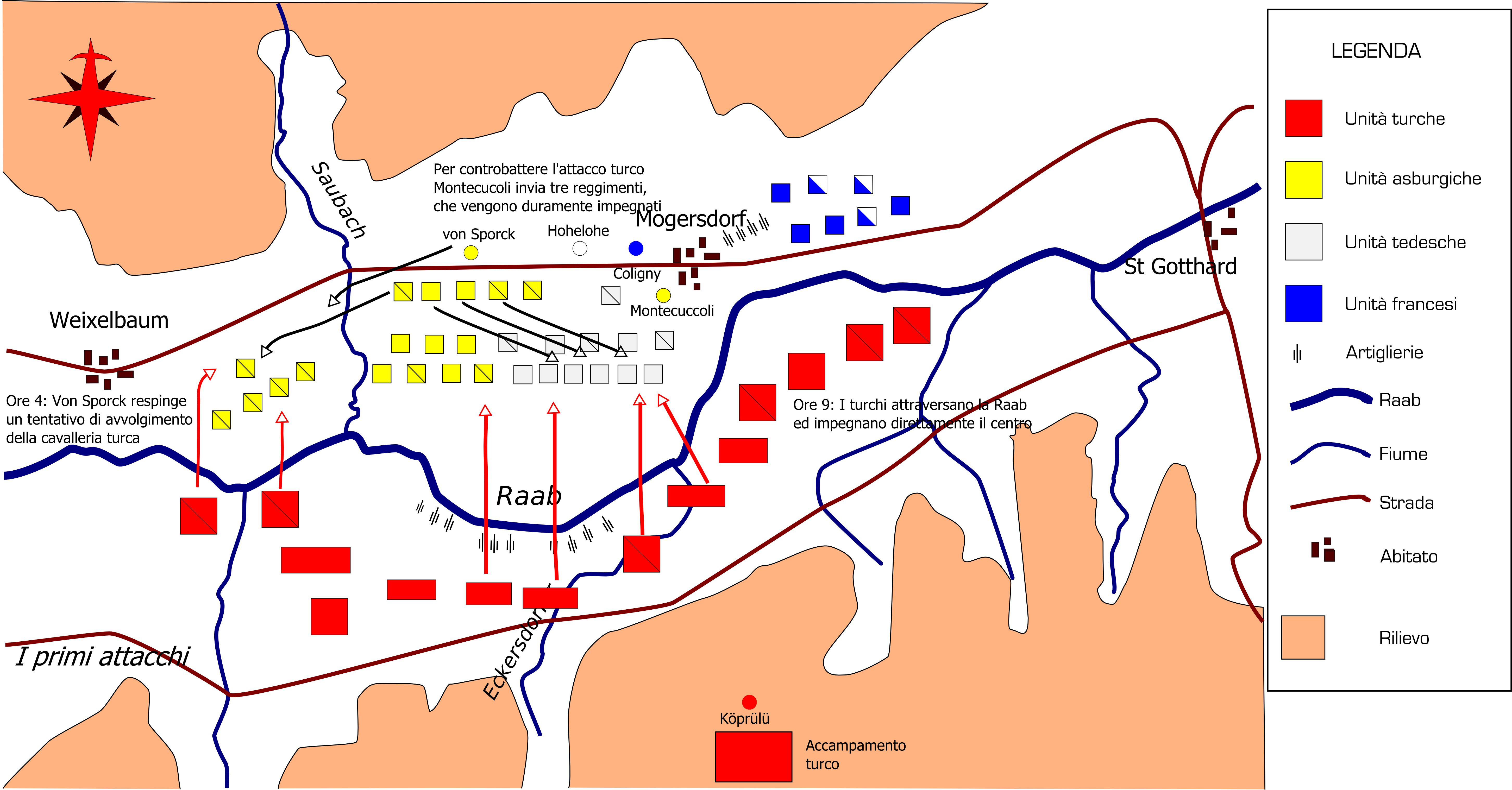 First moves in the battle of St Gotthard